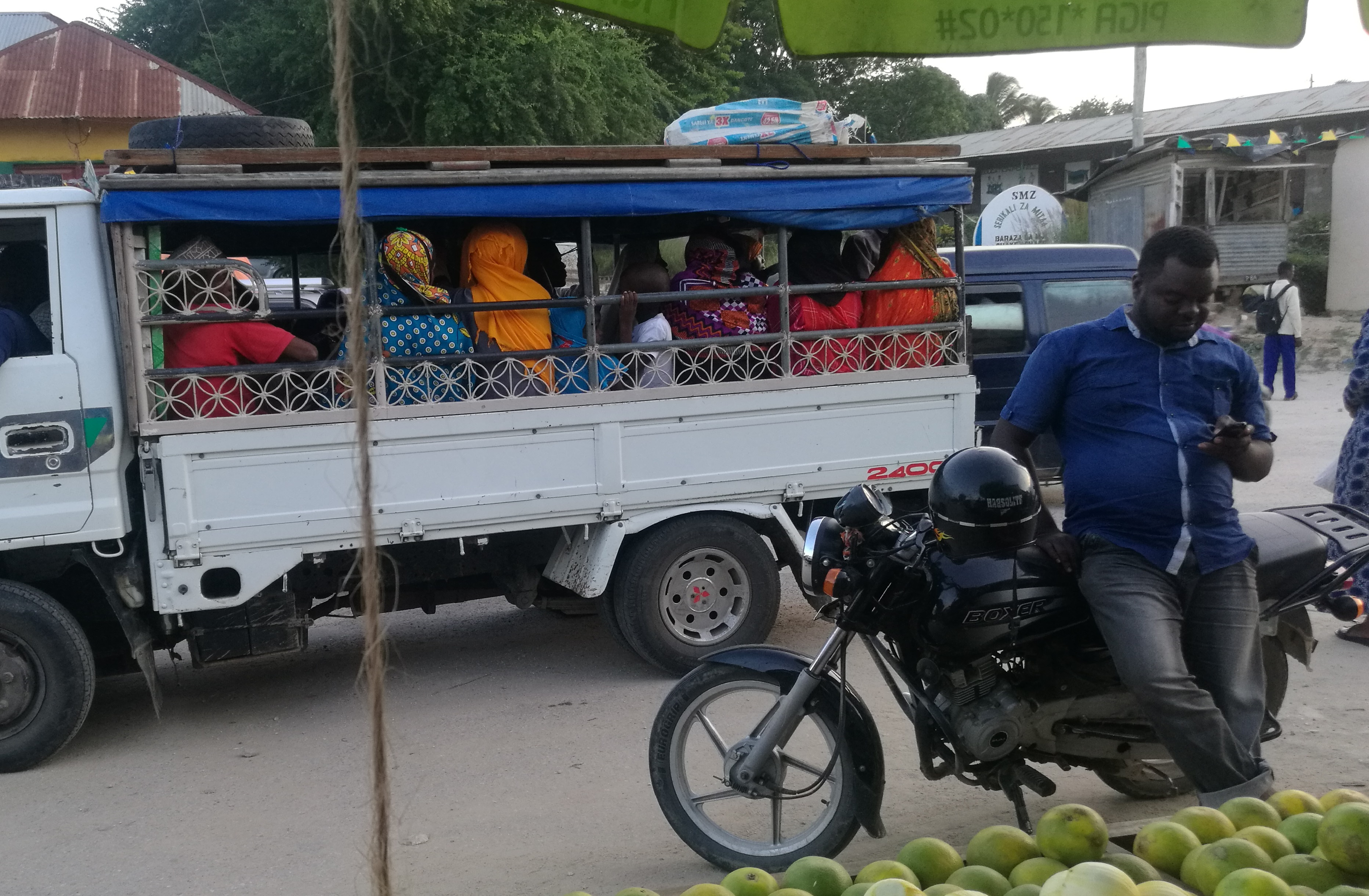 This is the common means the public move from a place to place in some parts of Tanzania, specifically Pemba Island. It is a cheap means of transport, that can be afforded by the majority. This is an image with the theme "Africa on the Move or Transport" from: Tanzania